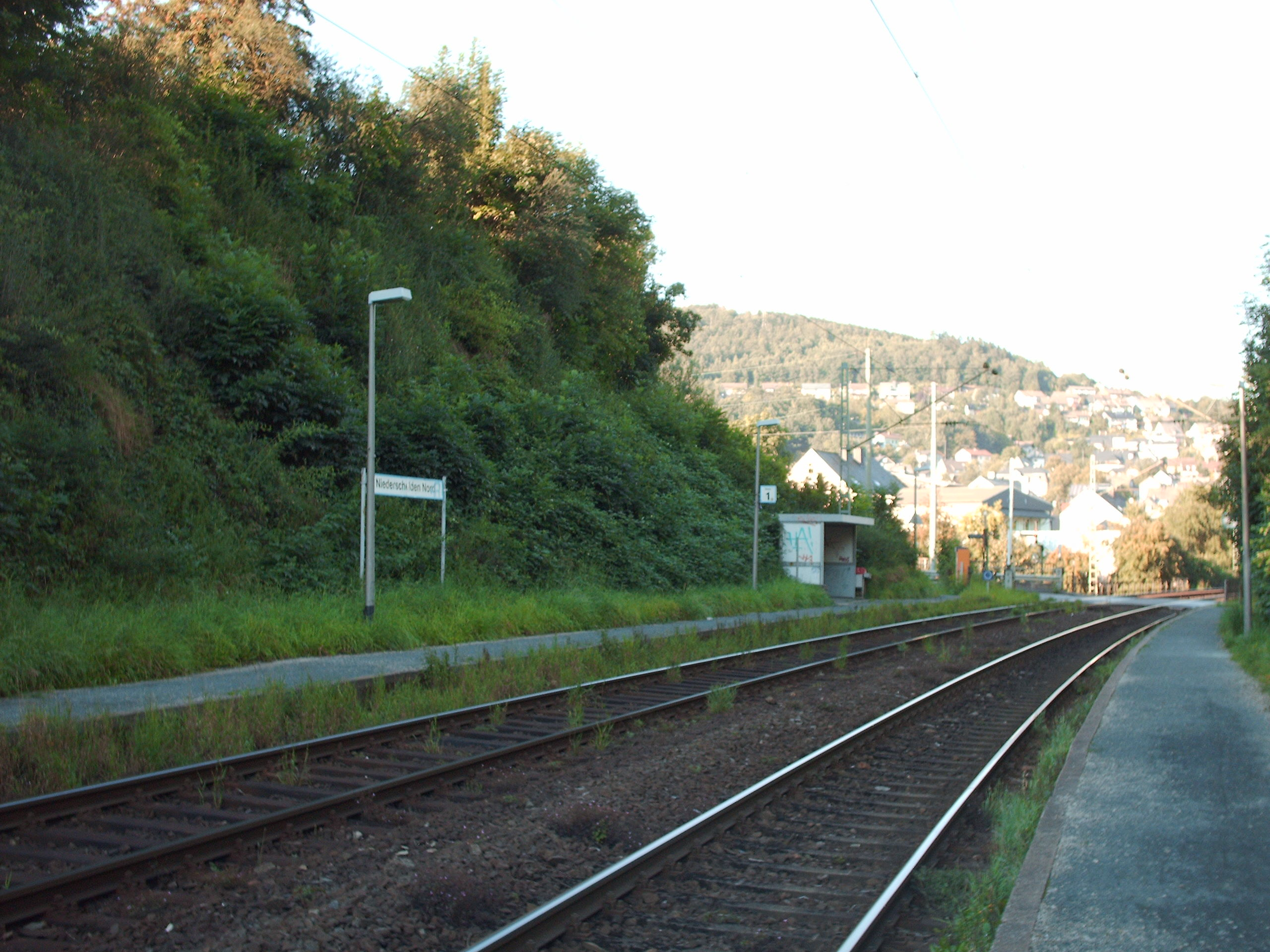 Niederschelden Nord station, Siegen, Germany check usage